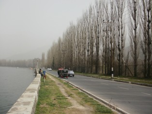 View at the Banks of Dal Lake-Srinagar-India